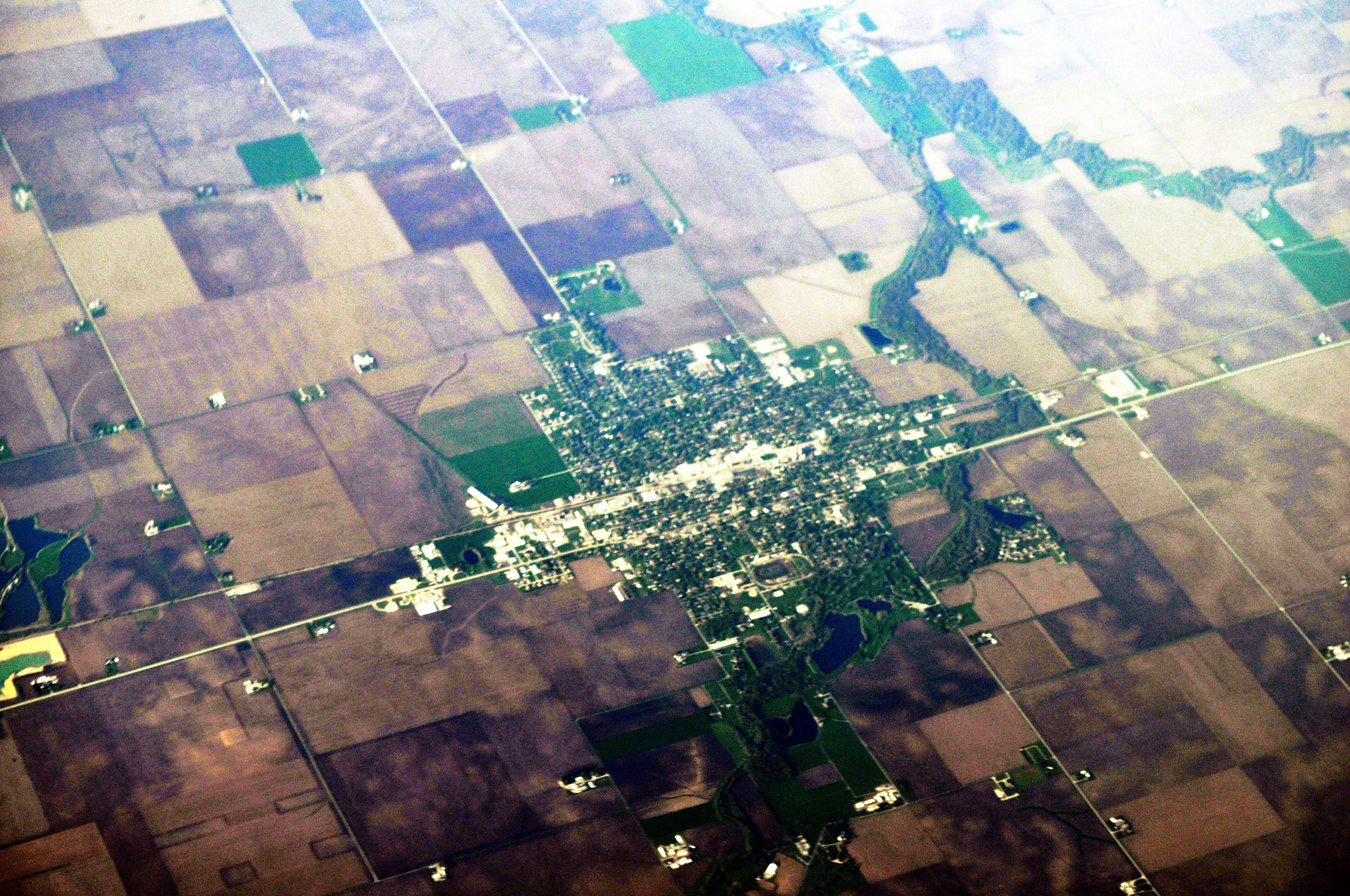 Aerial view of Fairbury, Illinois, USA.